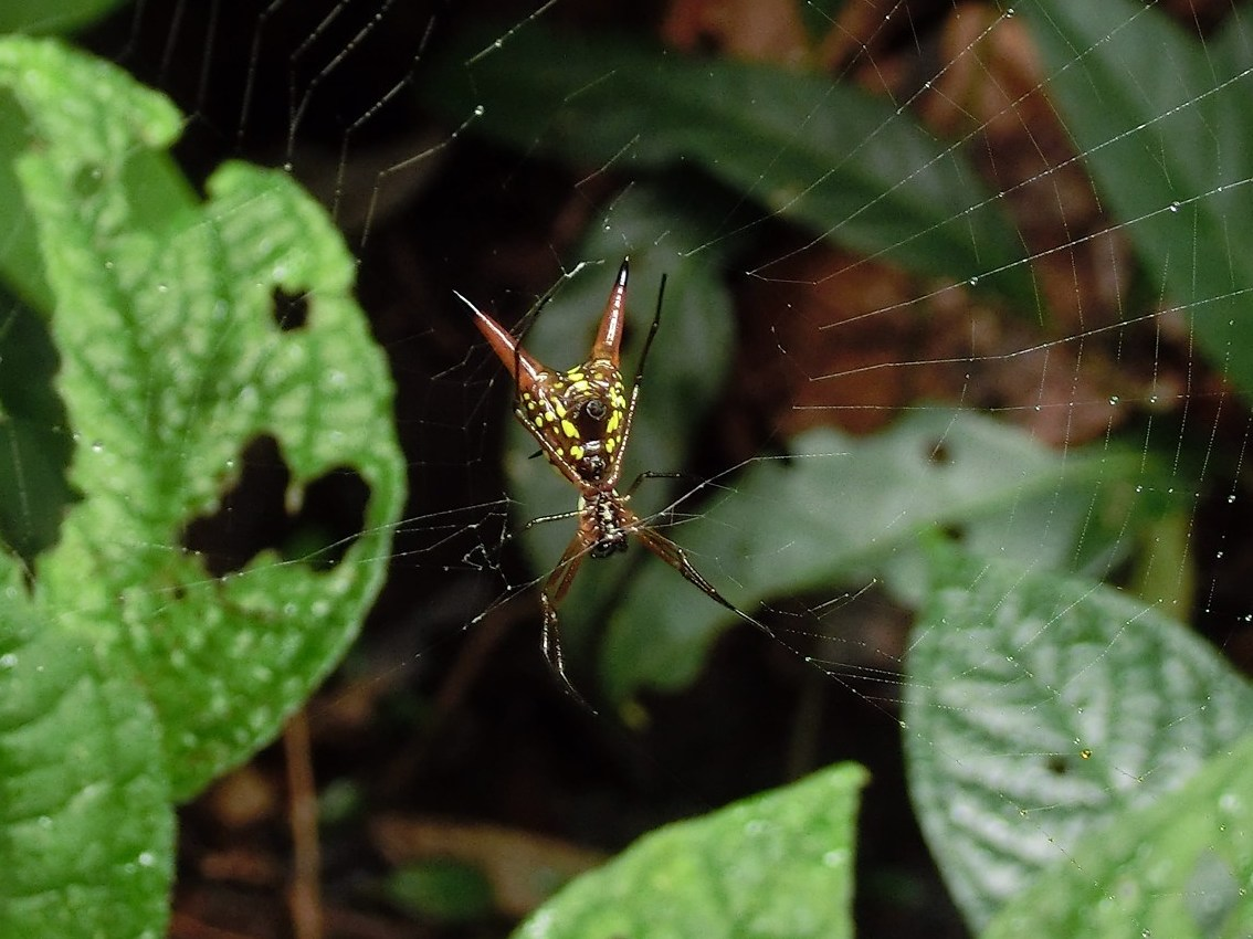 Micrathena spec., spider with long abdominal spines. Northern Costa Rica, lowland rain forest at Laguna del Lagarto Lodge (near Boca Tapada village).